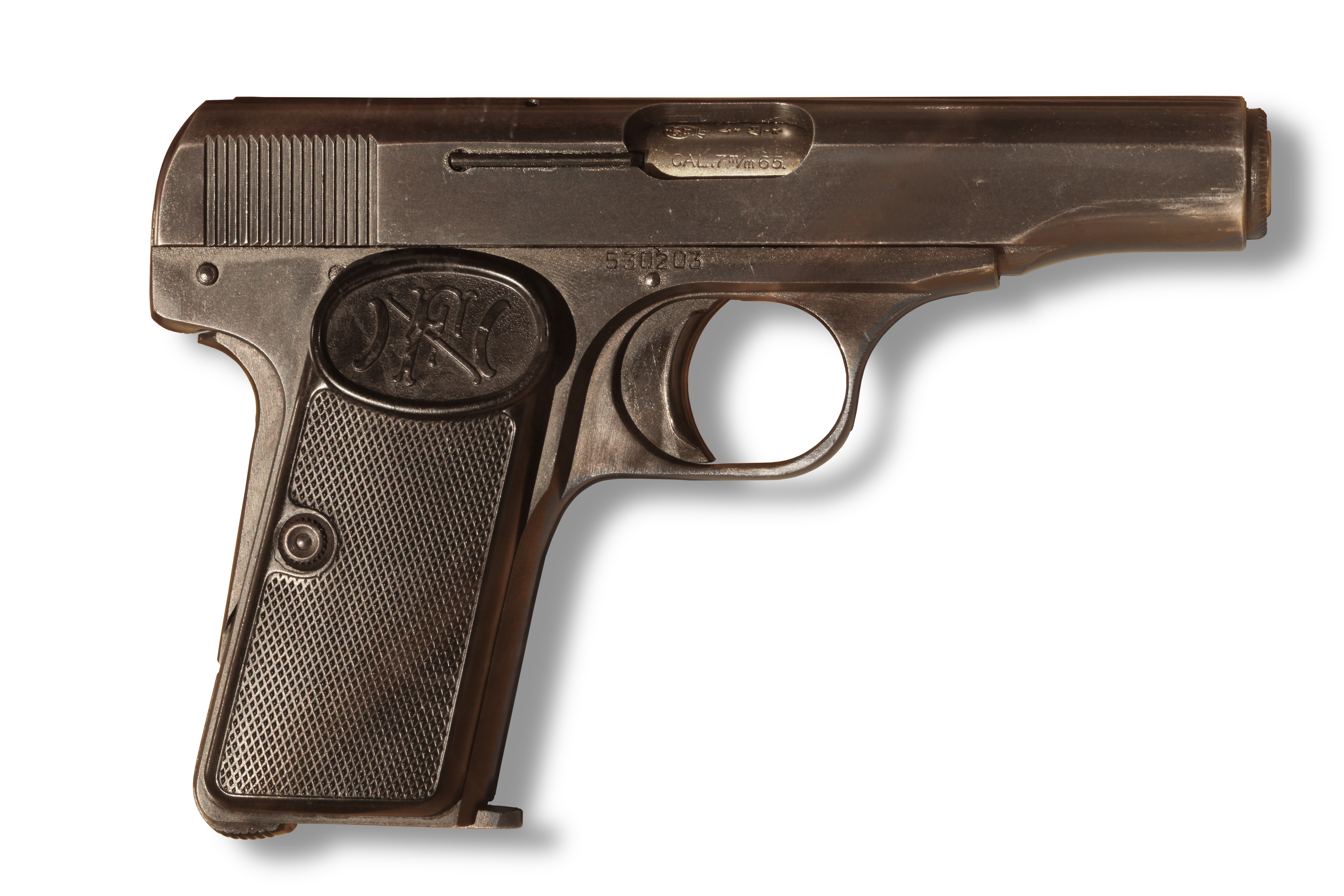 FN Model 1910. On display at Morges military museum.